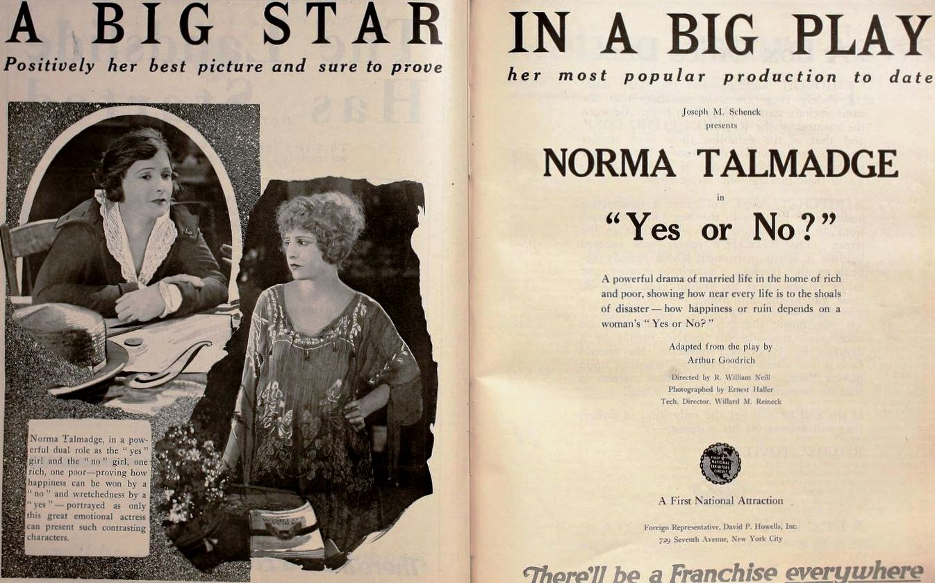 Ad for the American drama film Yes or No? (1920) with Norma Talmadge, on pages 4760 and 4761 of the June 12, 1920 Motion Picture News.